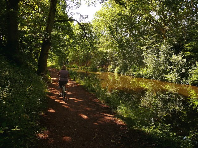 Alongside the "Swan's Neck" on the Grand Western Canal. A descriptive name for this part of the Grand Western Canal as it loops almost back on itself north west of Halberton.